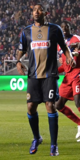 Gabriel Gómez of the Philadelphia Union